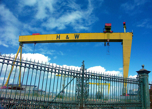 Picture of Harland & Wolff David and Goliath crane in Belfast